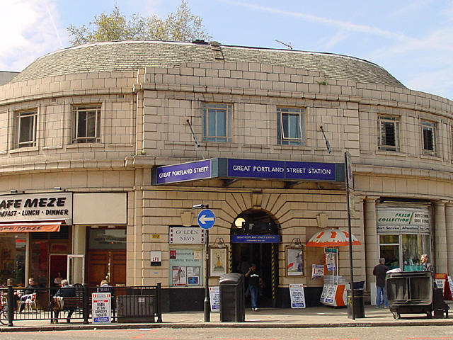 Great Portland Street Station